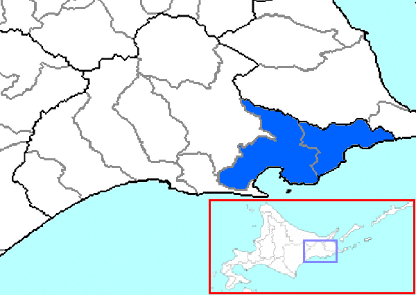 The location of Akkeshi District in Kushiro Subprefecture, Hokkaido Prefecture, Japan.